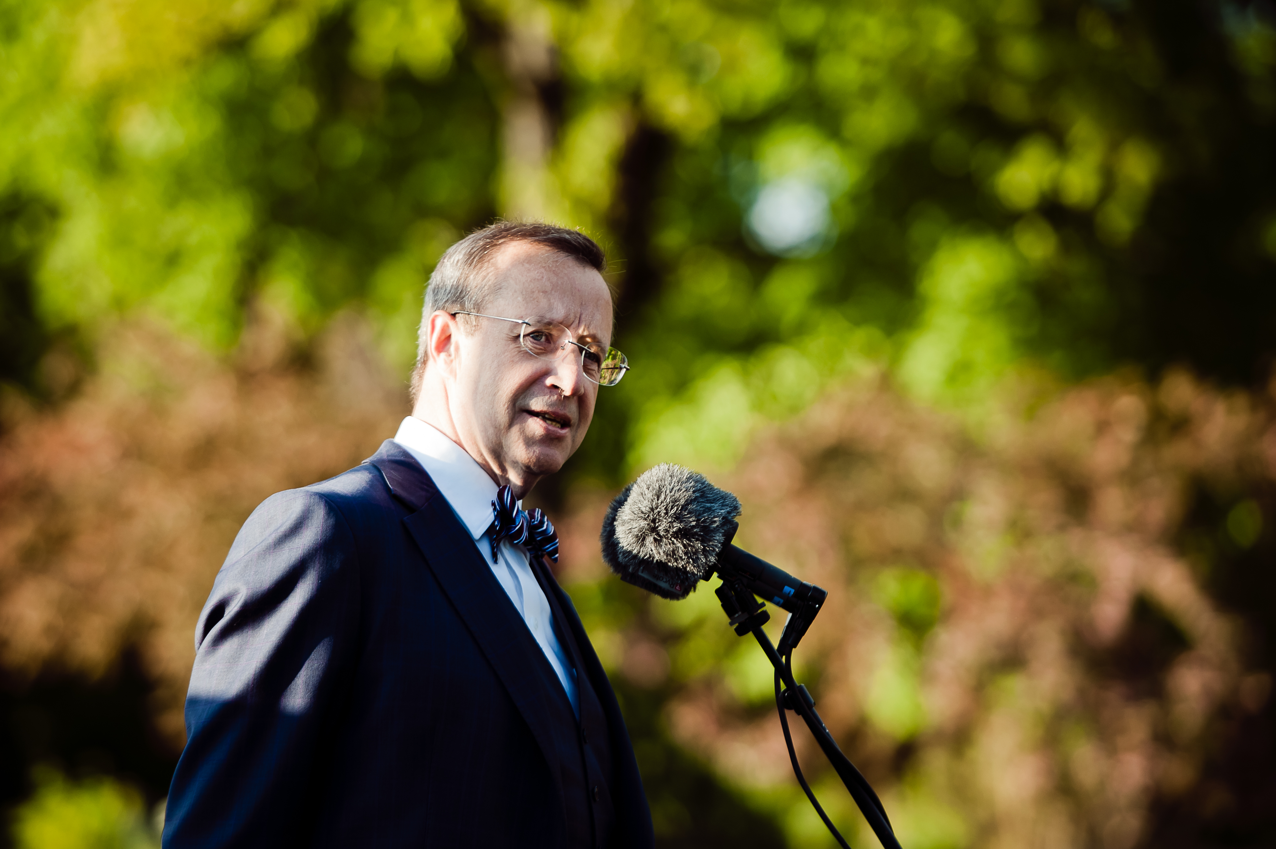 Toomas Hendrik Ilves. Reception at the 36th Annual Conference of the Association of Philosophy and Literature.